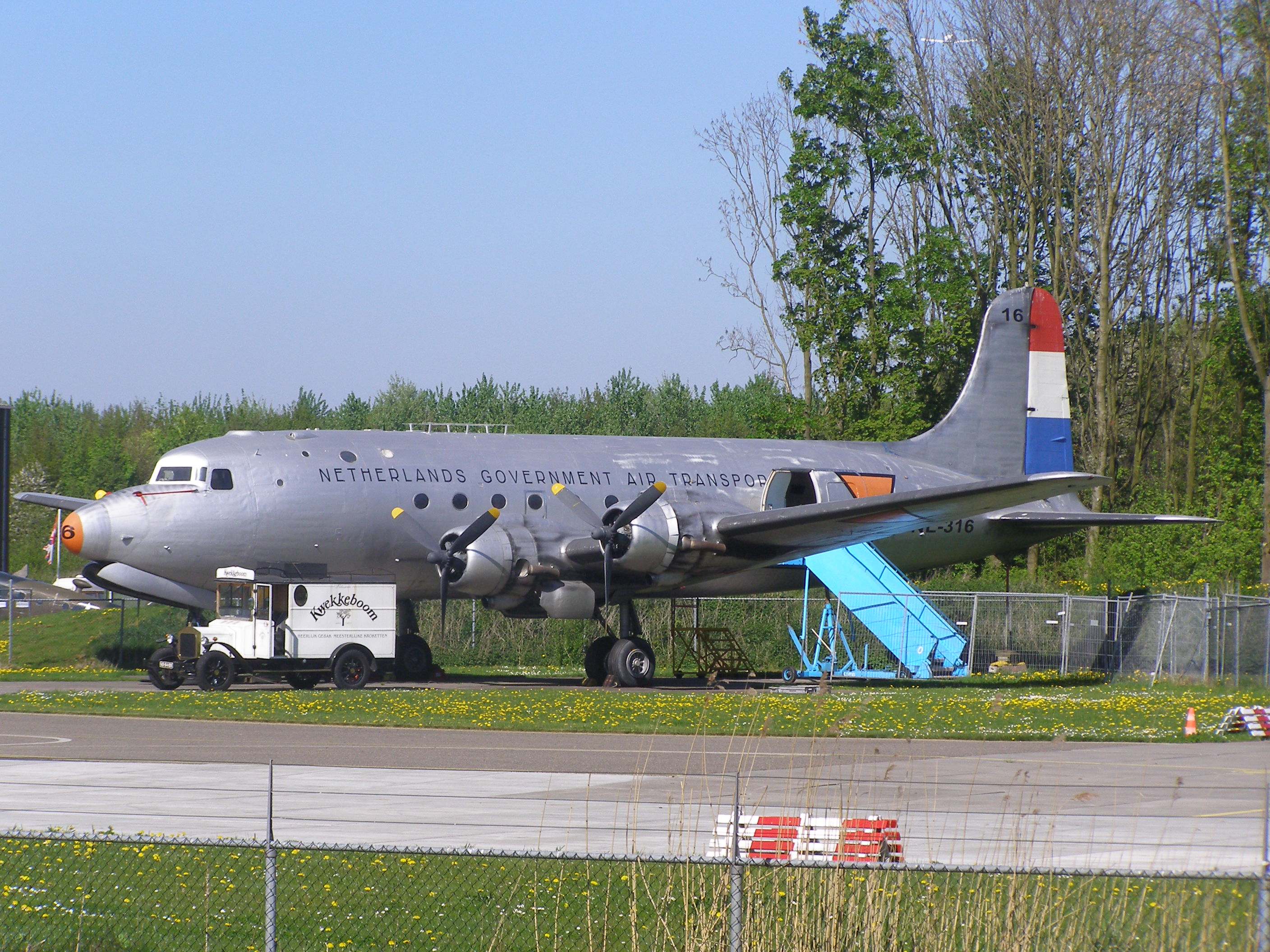 Douglas C-54A Skymaster displayed as Netherland Government Air Transport serial NL-316 at the Aviodrome Lelystad, Netherlands